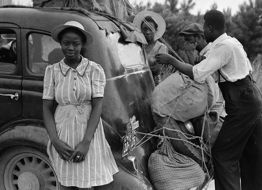 Title: Group of Florida migrants near Shawboro, North Carolina on their way to Cranberry, New Jersey, to pick potatoes. Creator(s): Delano, Jack, photographer Medium: 1 negative : safety ; 3 1/4 x 3 1/4 inches or smaller. Reproduction Number: LC-USF34-040841-D (b&w film neg.) Rights Advisory: No known restrictions. For information, see U.S. Farm Security Administration/Office of War Information Call Number: LC-USF34- 040841-D [P&P] LOT 1522 (corresponding photographic print) Other Number: E 5133 Repository: Library of Congress Prints & Photographs Division Washington, DC 20540 Notes: Title and other information from caption card. Transfer; United States. Office of War Information. Overseas Picture Division. Washington Division; 1944. Collections: Farm Security Administration/Office of War Information Black-and-White Negatives Part of: Farm Security Administration - Office of War Information Photograph Collection (Library of Congress)